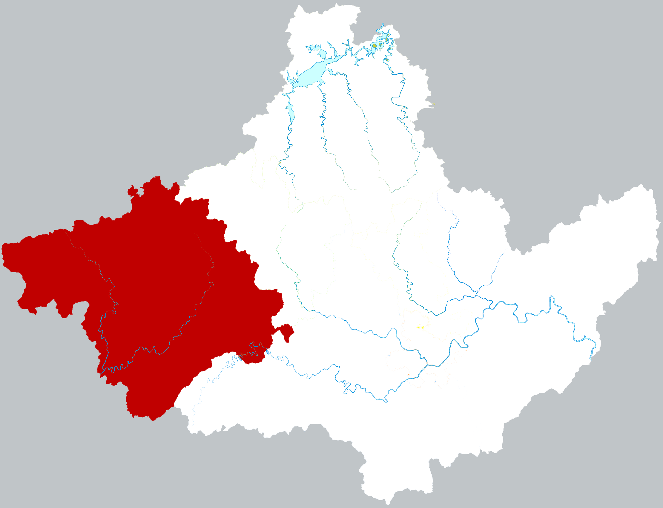 Location of Qimen county in Huangshan city, China